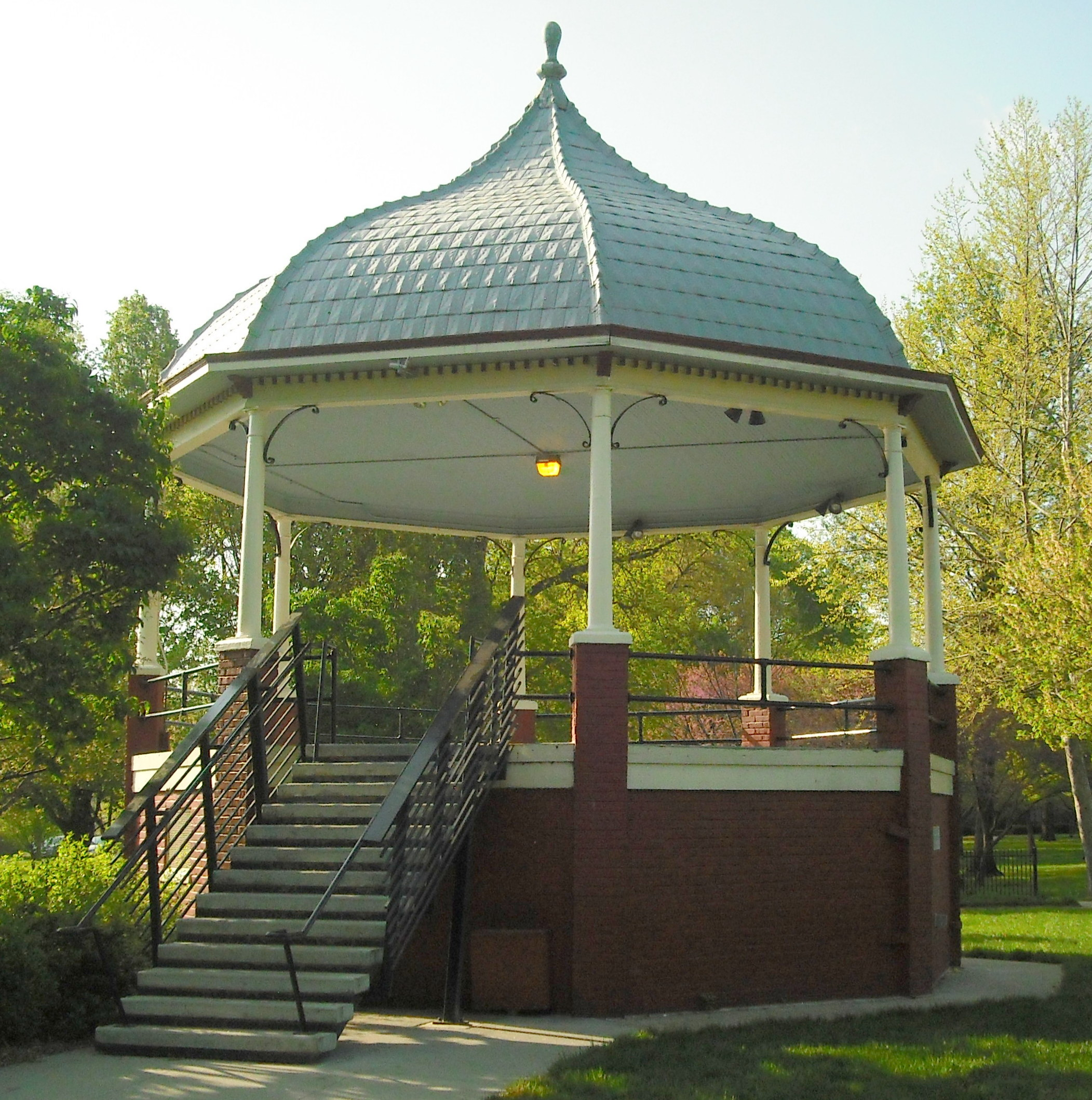 The South Park bandstand, just south of Downtown Lawrence.